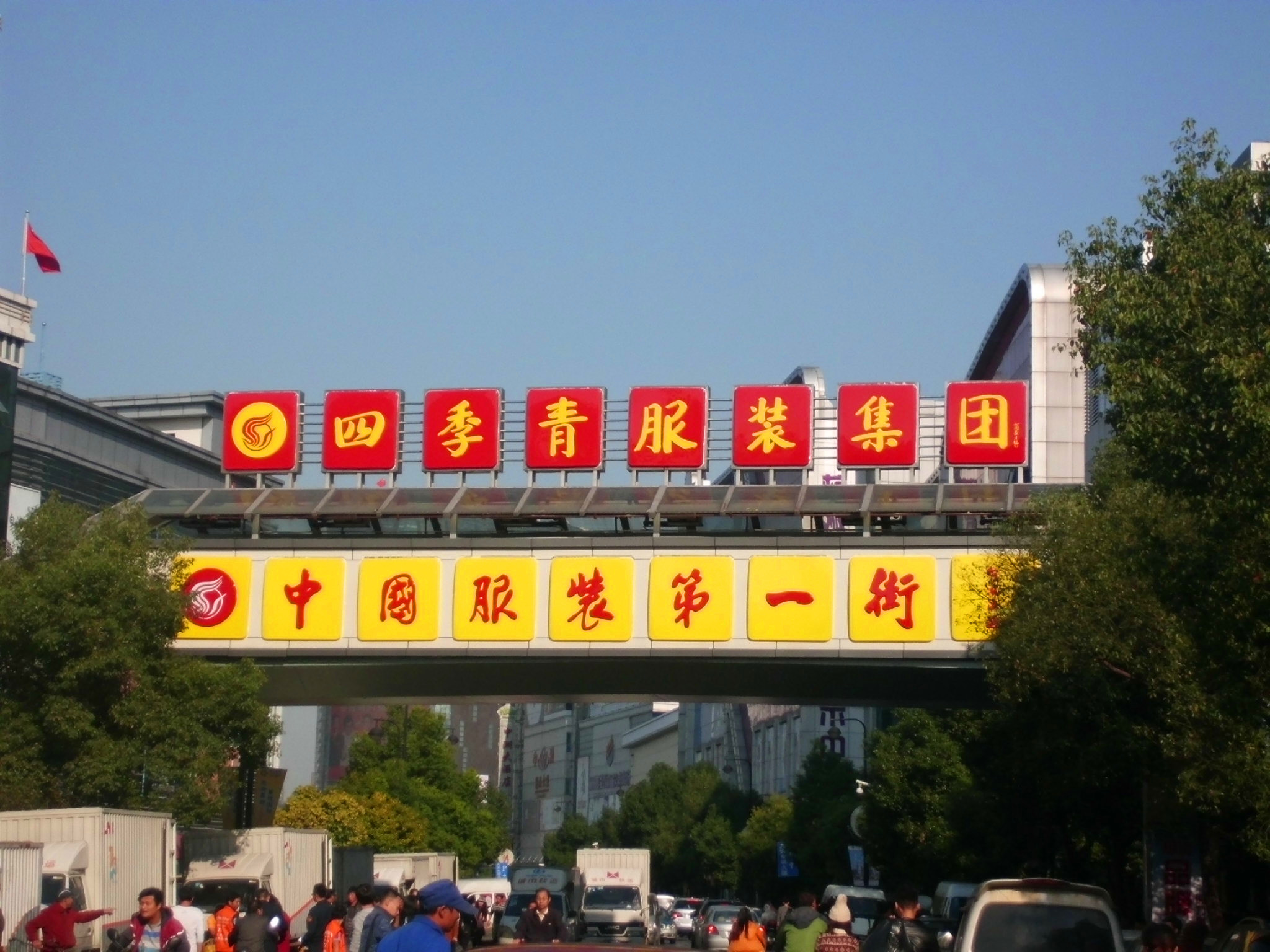 Hangzhou Sijiqing